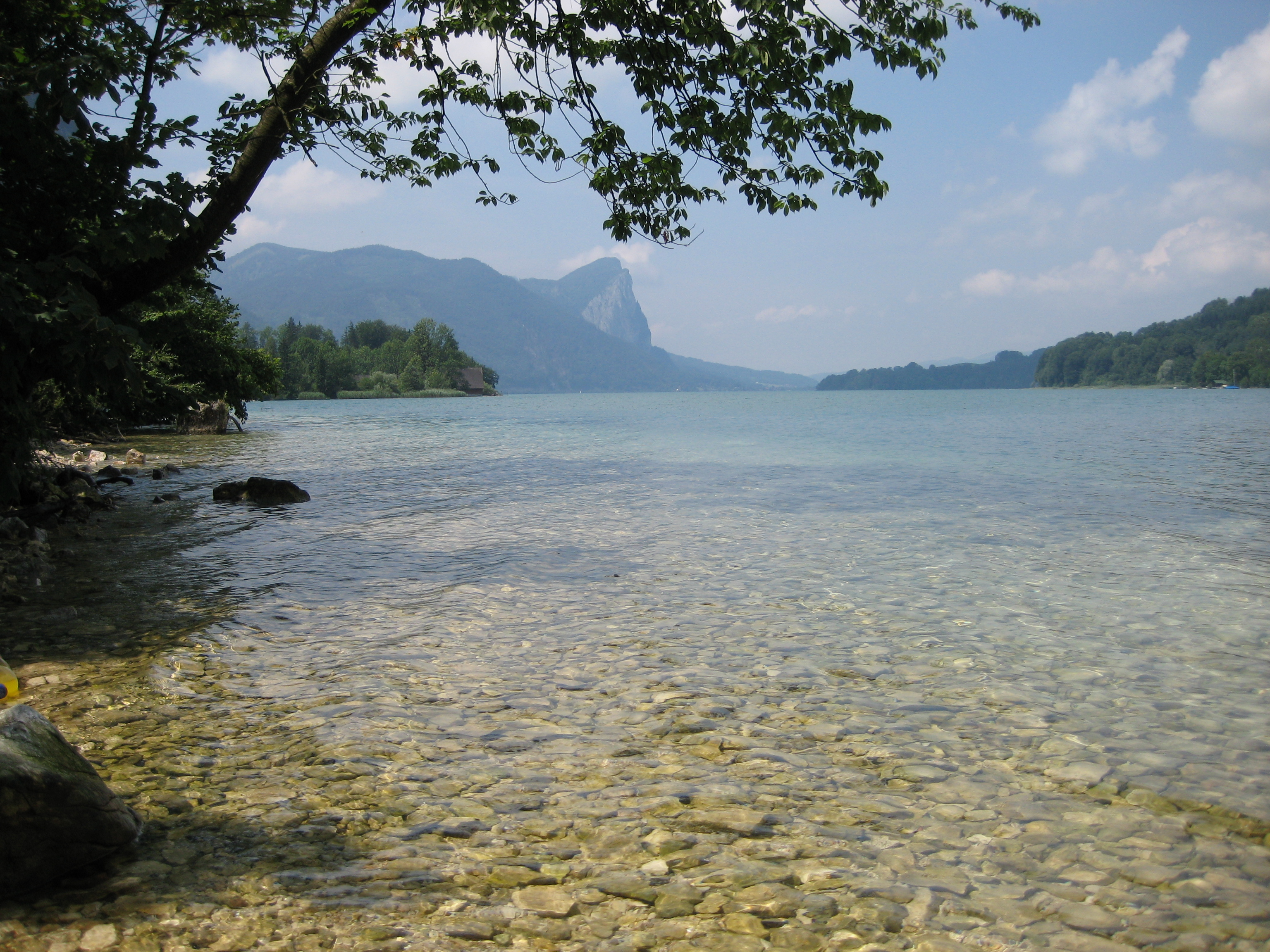 Mondsee, Salzkammergut, Upper Austria